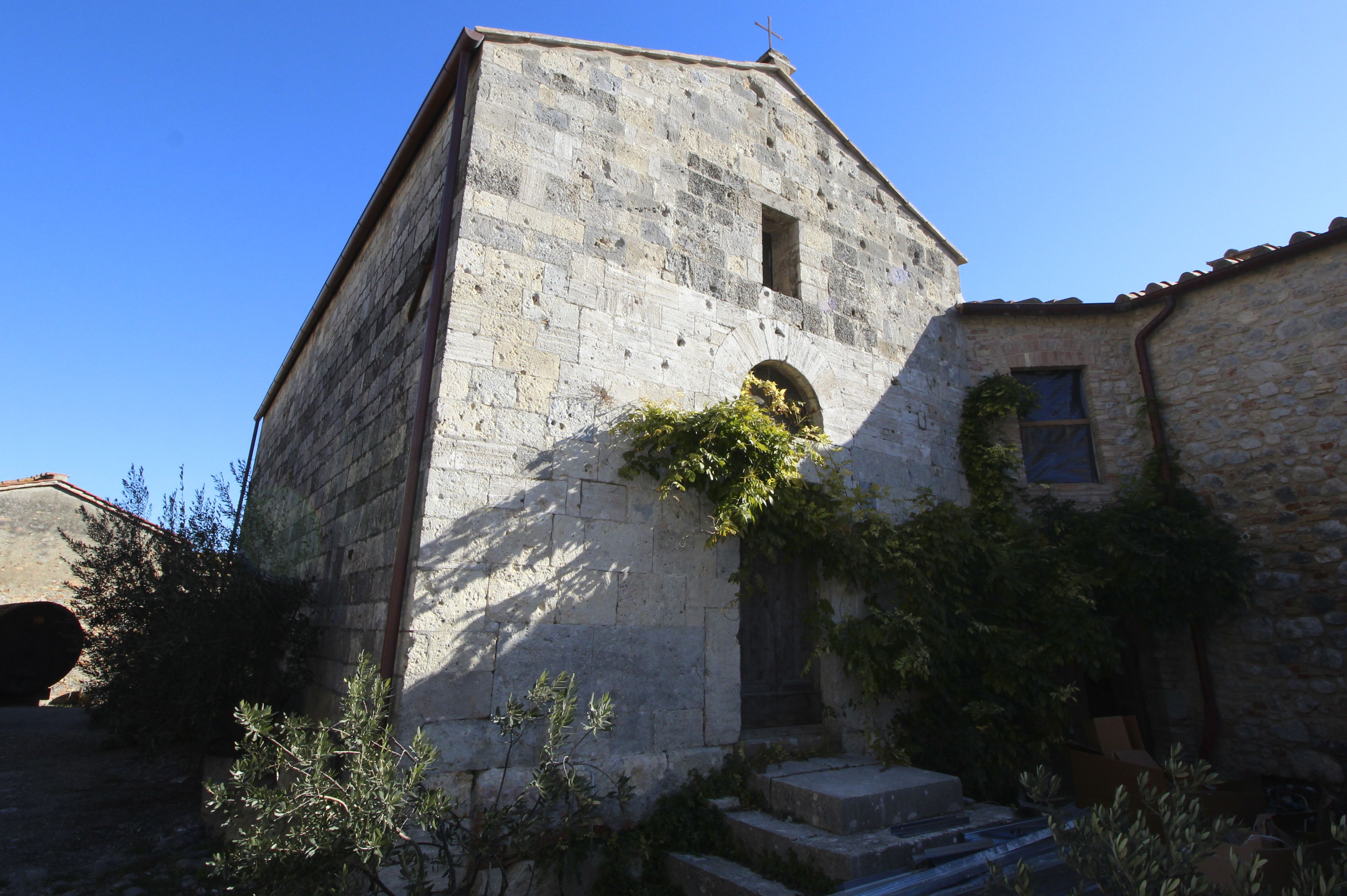 Church San Donato, in San Donato, hamlet of San Gimignano, Val d'Elsa, Province of Siena, Tuscany, Italy